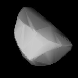 3D convex shape model of 1652 Hergé, computed using light curve inversion techniques. J. Hanuš, J. Ďurech, M. Brož, B. D. Warner (June 2011). "A study of asteroid pole-latitude distribution based on an extended set of shape models derived by the lightcurve inversion method". Astronomy and Astrophysics 530: A134. ISSN 0004-6361. arXiv